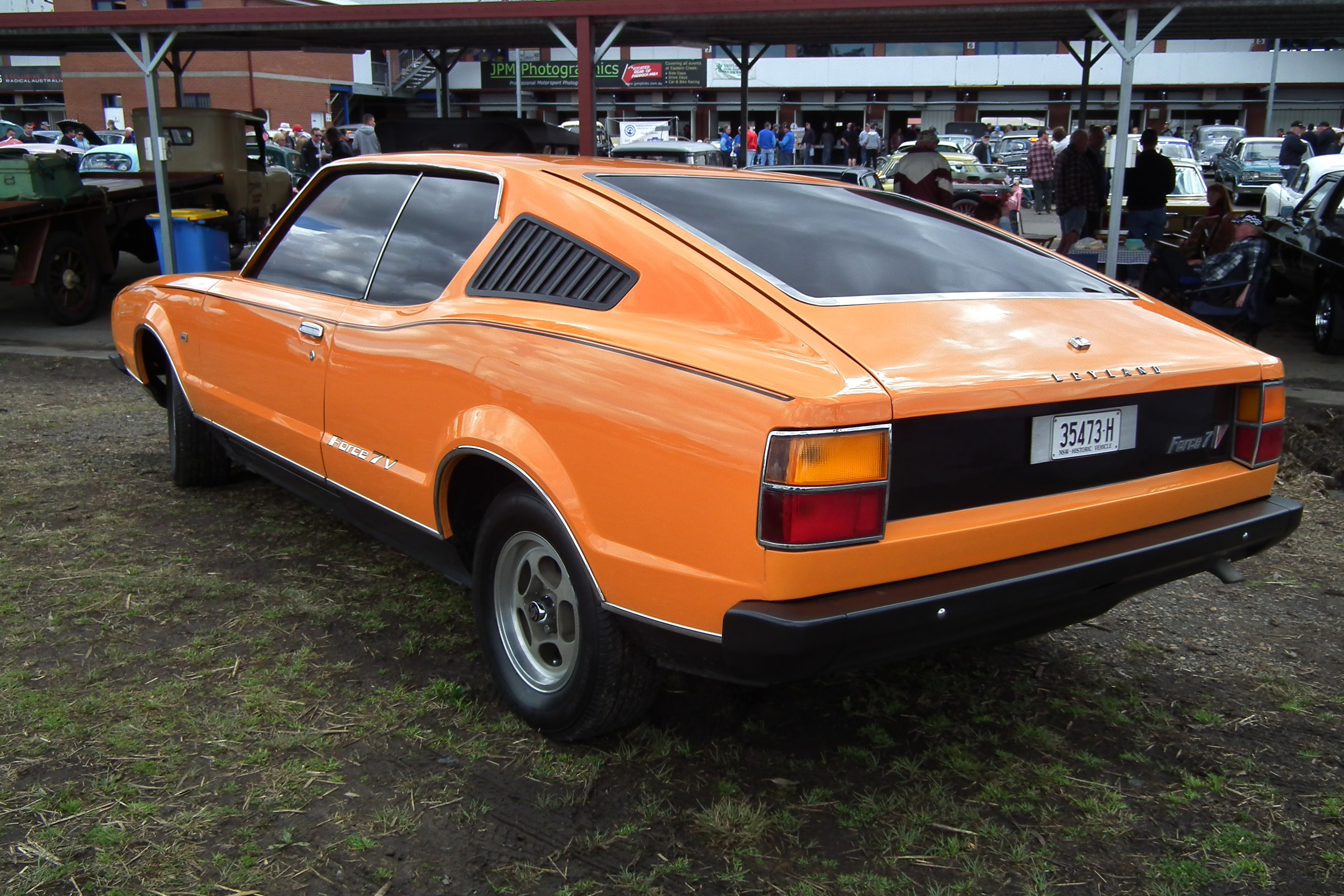 1974 Leyland Force 7V coupe. Taken at Shannon's Eastern Creek Classic 2011, held at Eastern Creek Raceway Sydney.